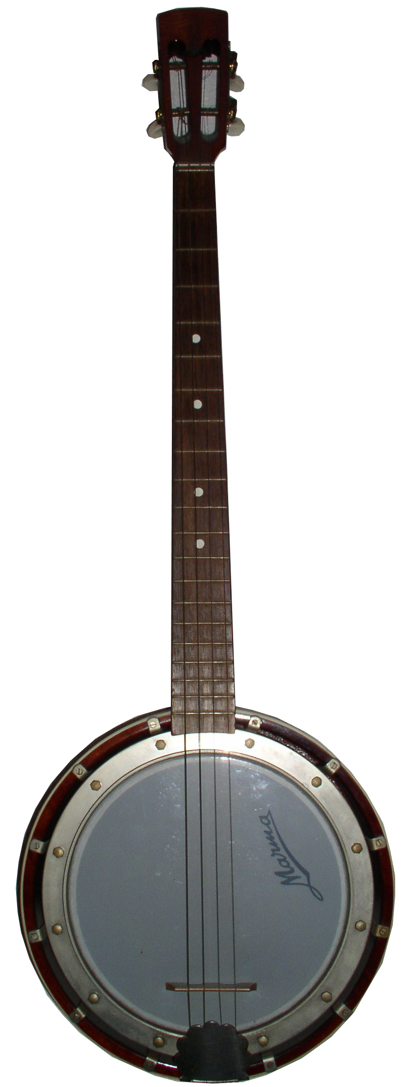 Tenor banjo Own picture